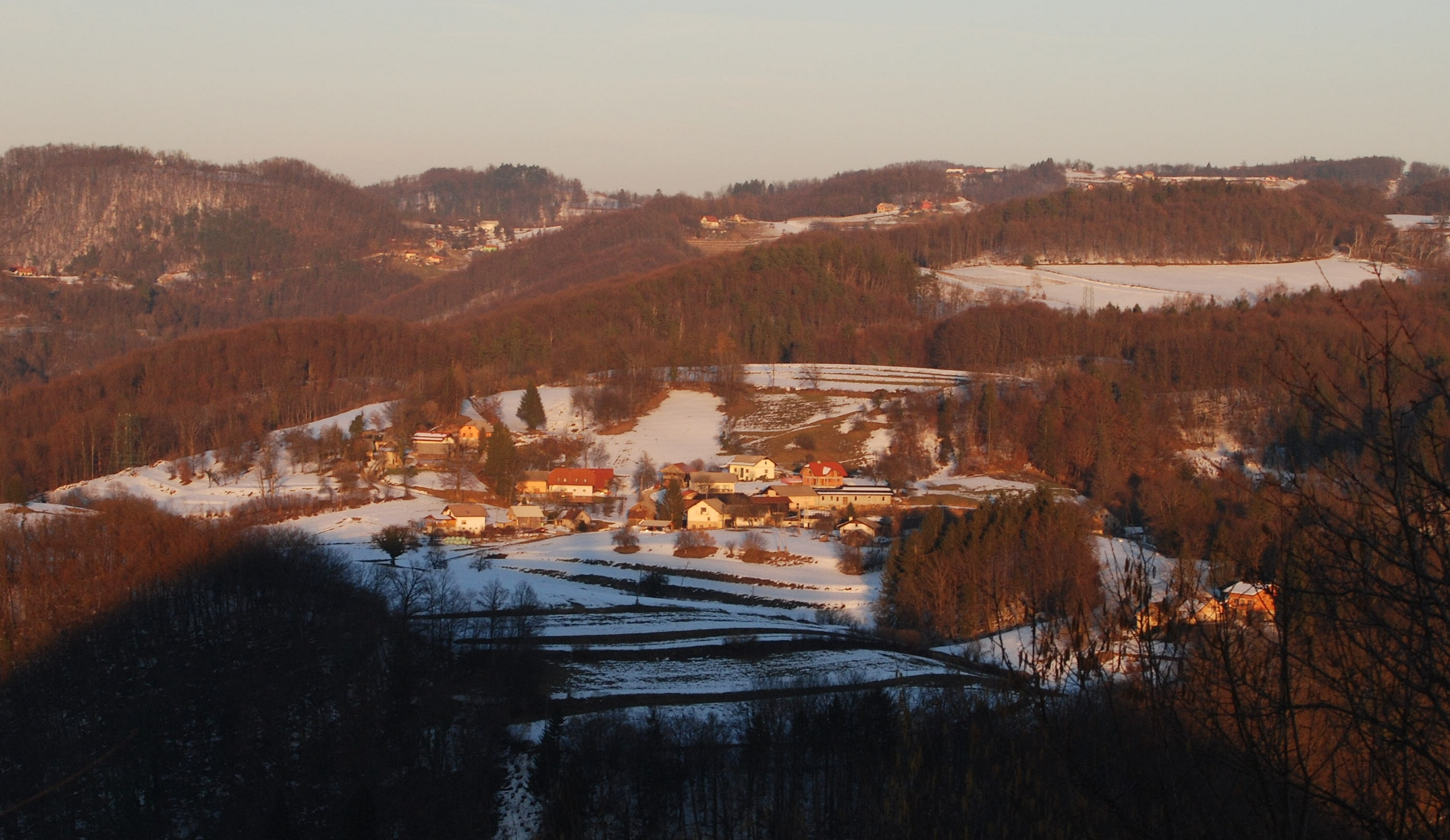 Spodnje Vodale, Municipality of Sevnica, Slovenia. View from the west.